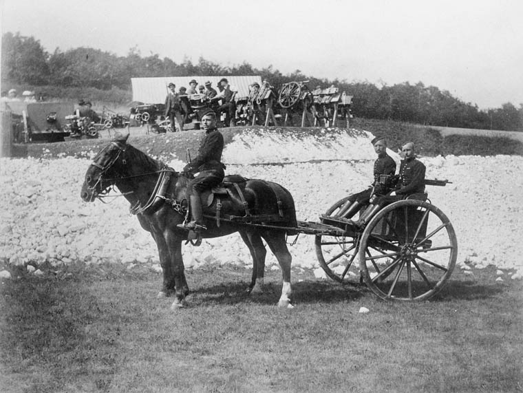 LAC caption : "No.25 Nordenfelt 5 barrel rifle calibre gun on galloping carriage, 10th Hussars".